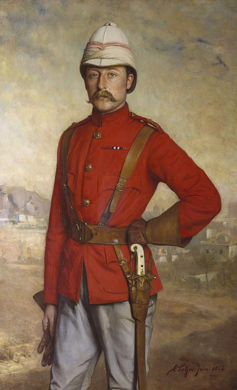 Prince Arthur, Duke of Connaught (1850-1942) Creator: Carl Rudolph Sohn (1845-1908) (artist) Creation Date: Signed and dated 1882 Materials and techniques: Oil on canvas Dimensions: 135.7 x 85.8 cm Provenance: Commissioned by Queen Victoria Description: Carl Rudolph was the son of Carl Ferdinand Sohn (1805-1867); the father was known to Queen Victoria through his portrait of the Queen of Hanover (RCIN 405078); the son was employed by members of the Royal Family 1882-6. Arthur, Duke of Connaught (1850-1942) was Queen Victoria’s youngest son. He had commanded the Guards Brigade at the battle of Tel-el-Kebir in Egypt and shown great courage under heavy fire. This portrait was made when he returned to Windsor in triumph in November 1882. Signed and dated: C Sohn. Jun. 1882. Inscribed on the back with the names of the artist and sitter and the date, 1882, and as in the fighting dress he had worn in the Egyptian campaign.